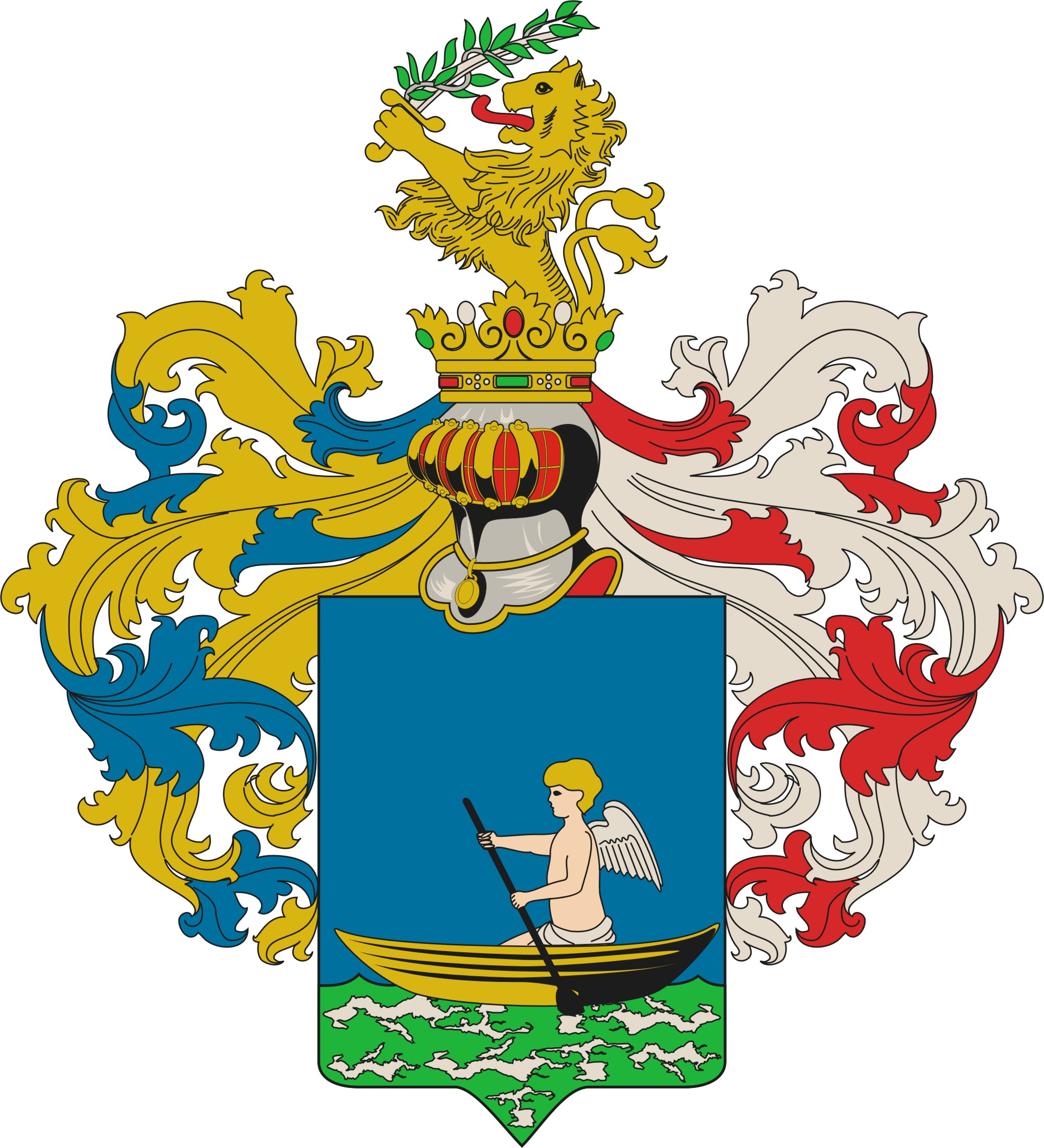 Coat of arms of Földeák, Hungary